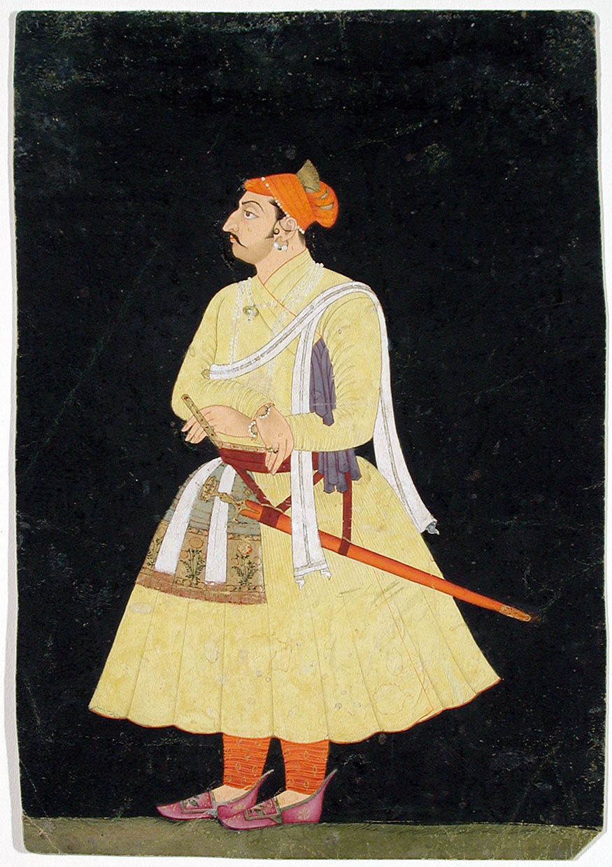 Creation Date: 1638-1644 Display Dimensions: 12 3/32 in. x 7 7/8 in. (30.7 cm x 20 cm) Credit Line: Edwin Binney 3rd Collection Accession Number: 1990.612 Collection: The San Diego Museum of Art